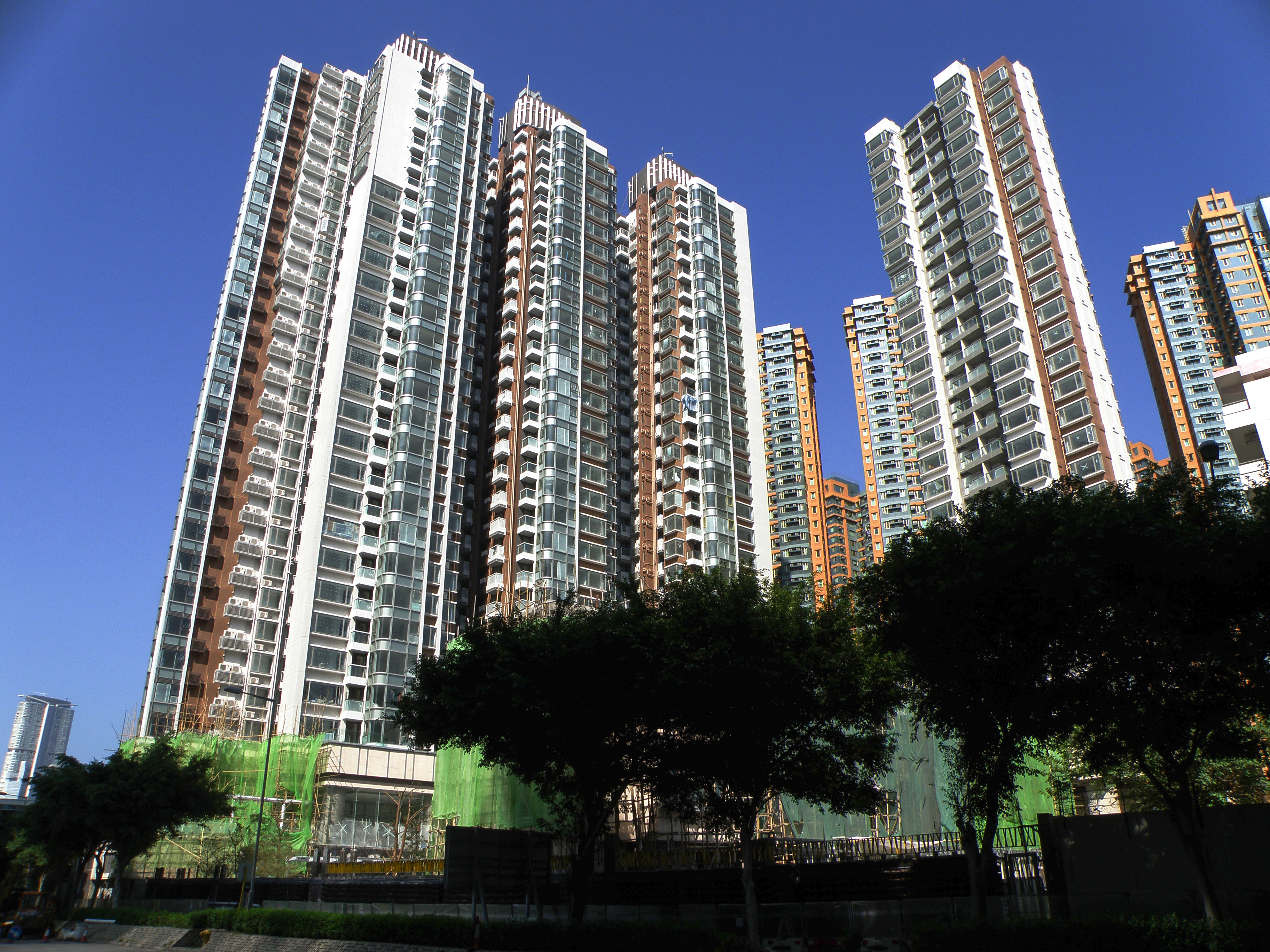 Stars by the Harbour in Hung Hom, Hong Kong.